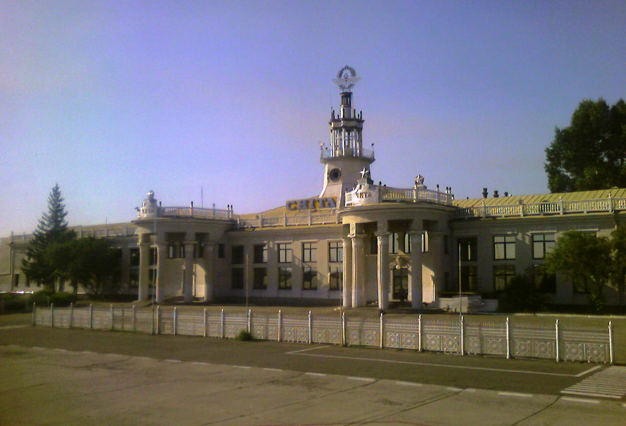 Tupolev Tu-154 and Chita Kadala airport, Russia